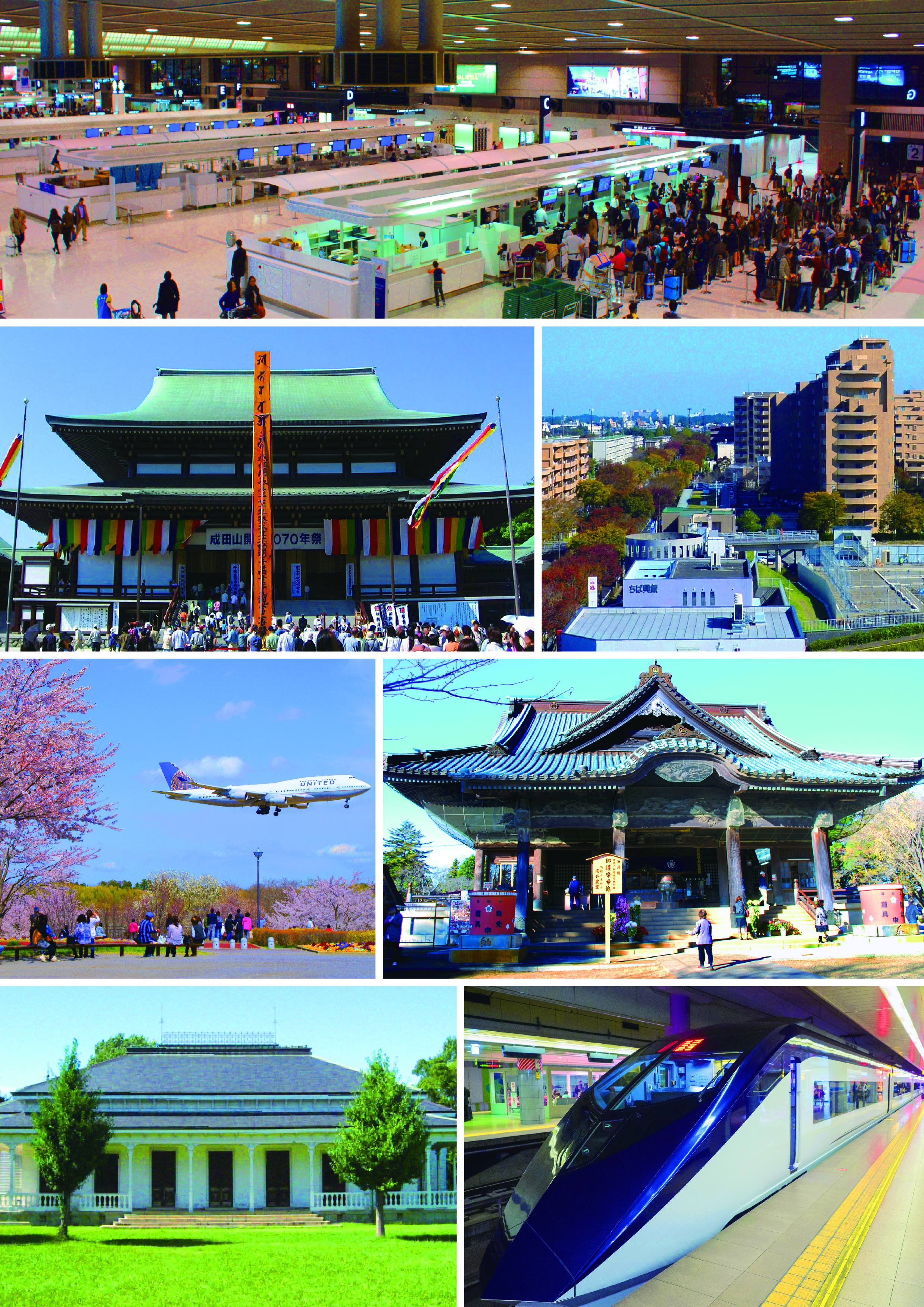 Narita montage.jpg